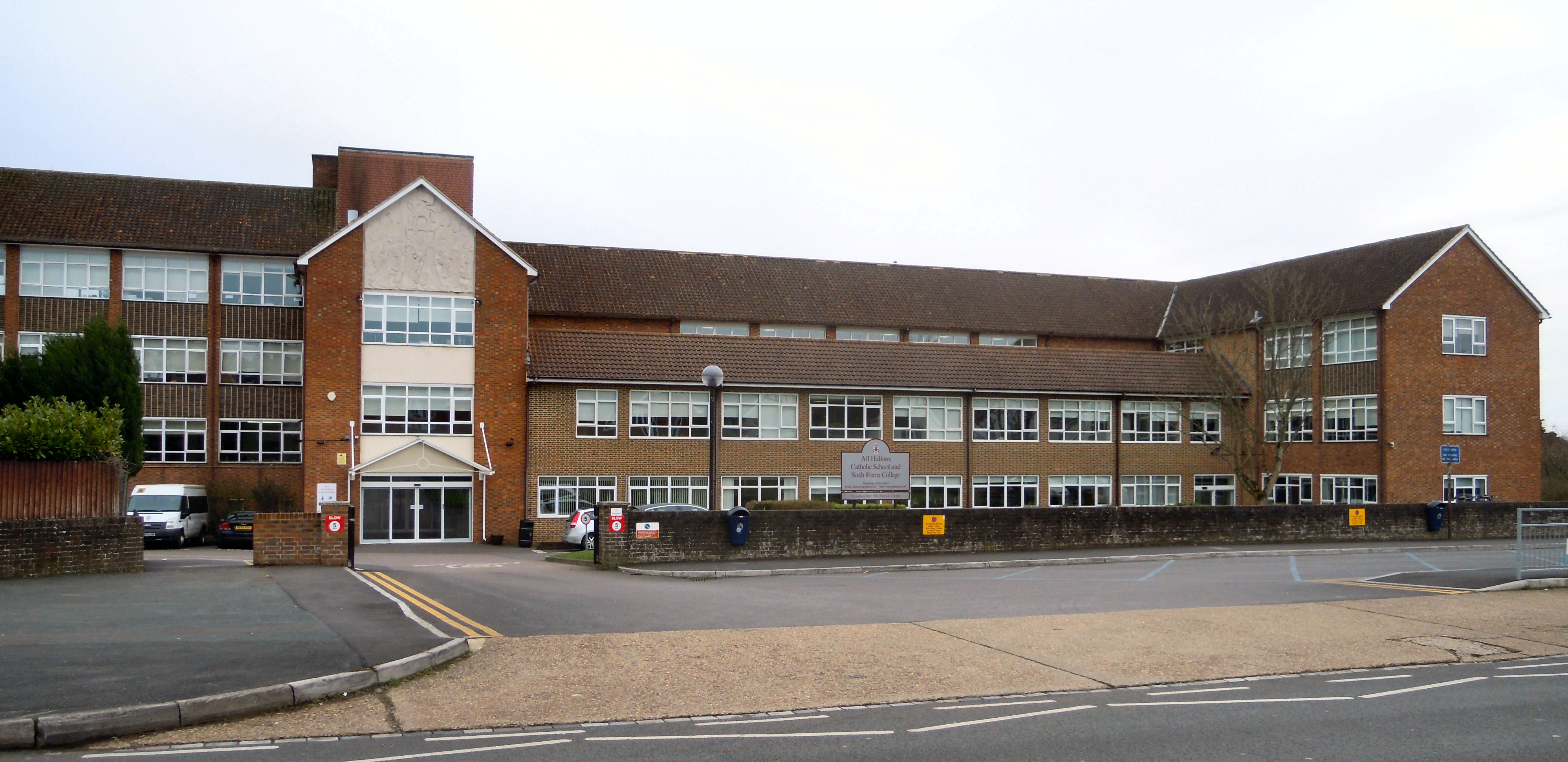 The front of All Hallows Catholic School in Farnham in Surrey in March 2019